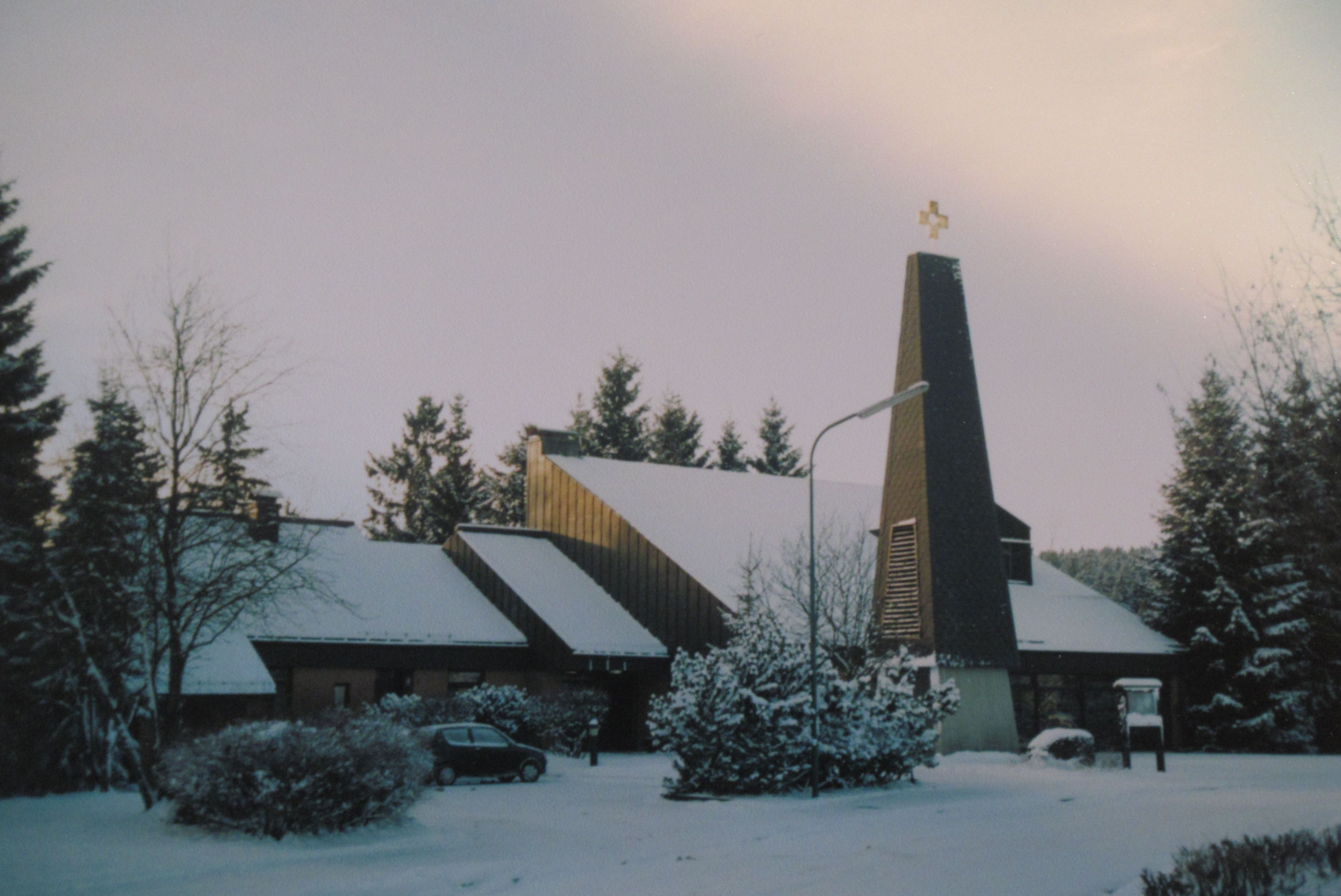 Catholic Church, Altenau, Harz Mountains, Lower Saxony, Germany